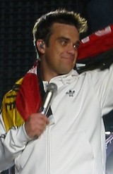 Robbie Williams performs at a concert in Hamburg, 2006